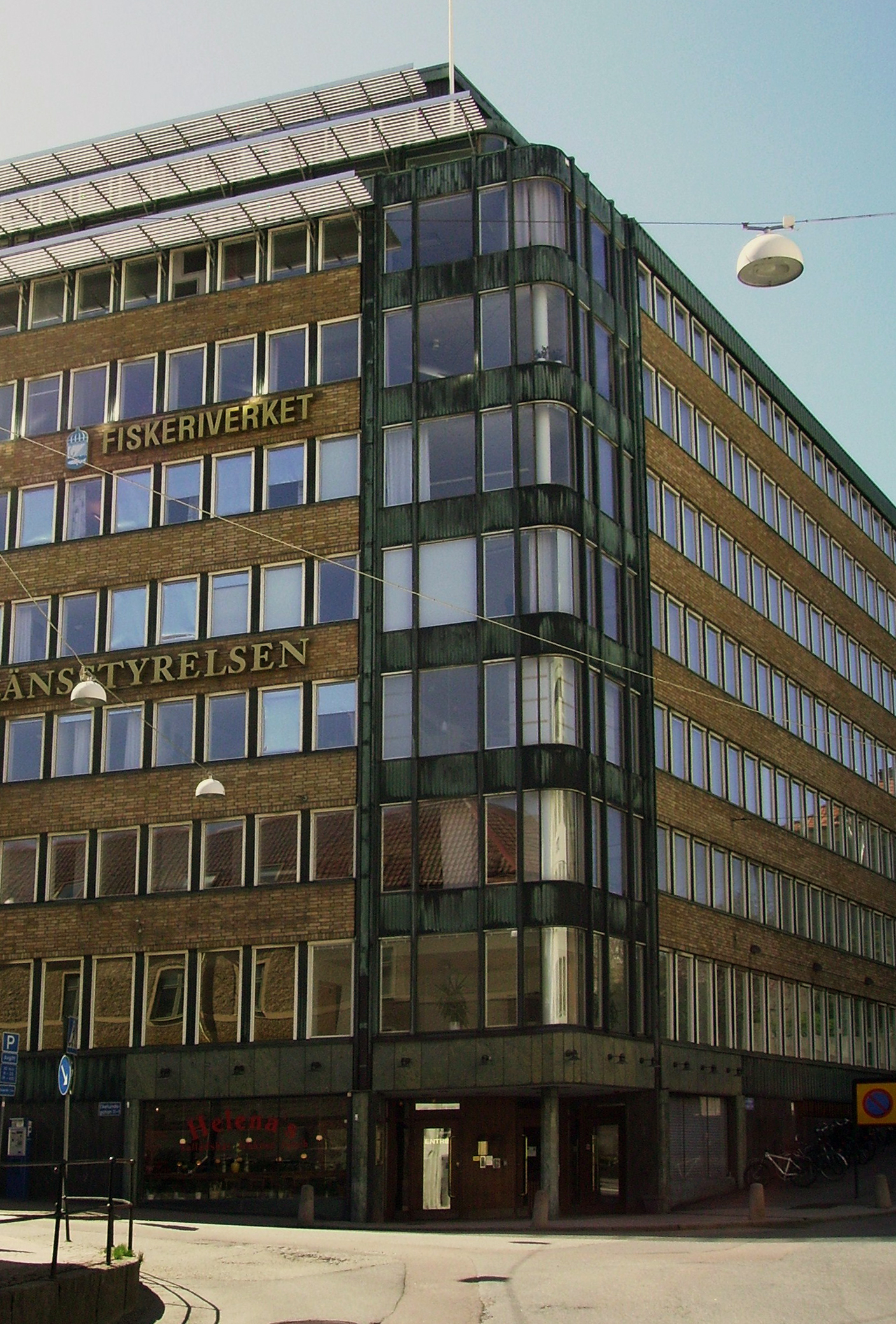 Picture of Fiskeriverket in Göteborg